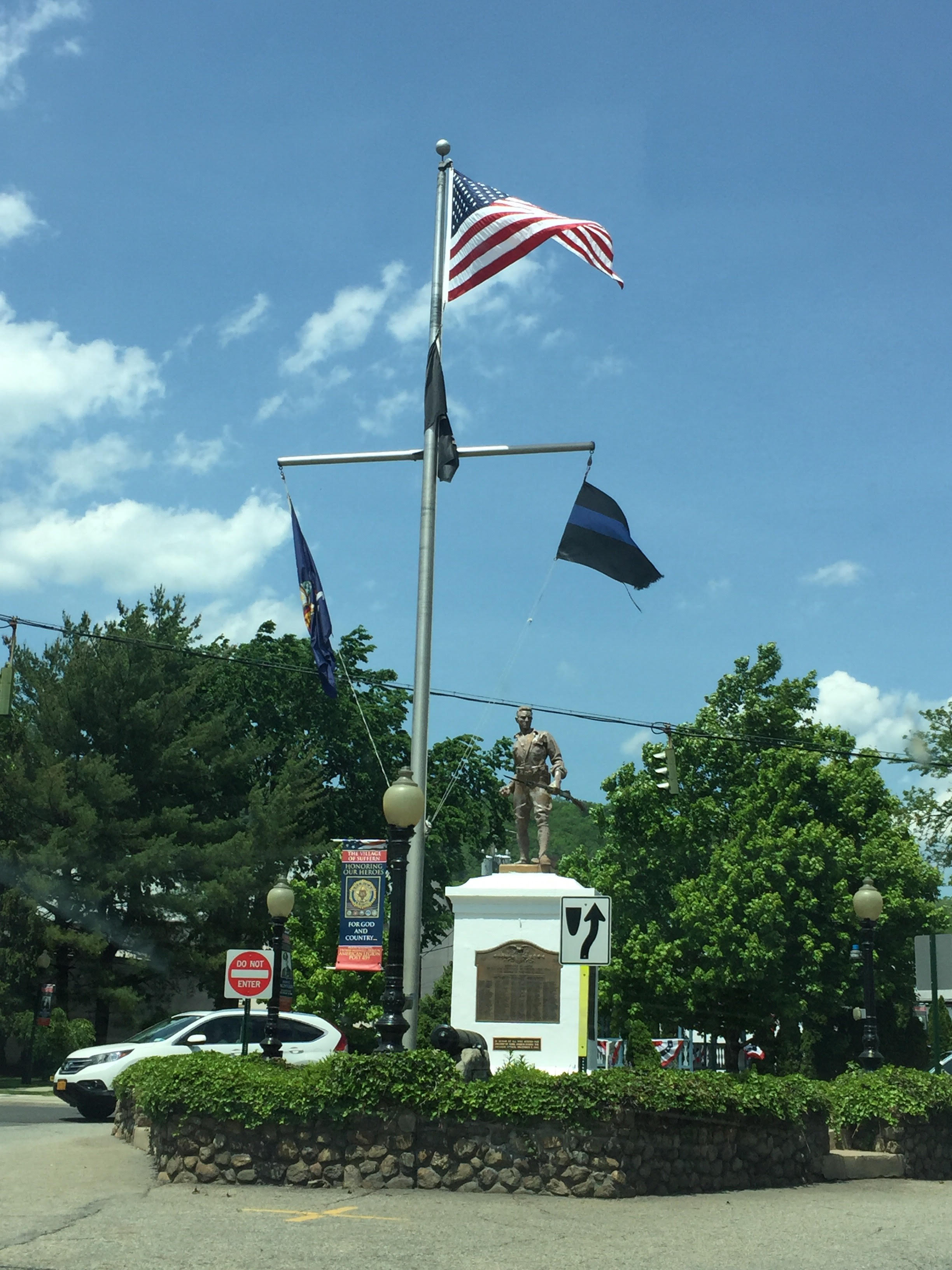 Washington Avenue Soldier's Monument in Downtown Suffern, New York.